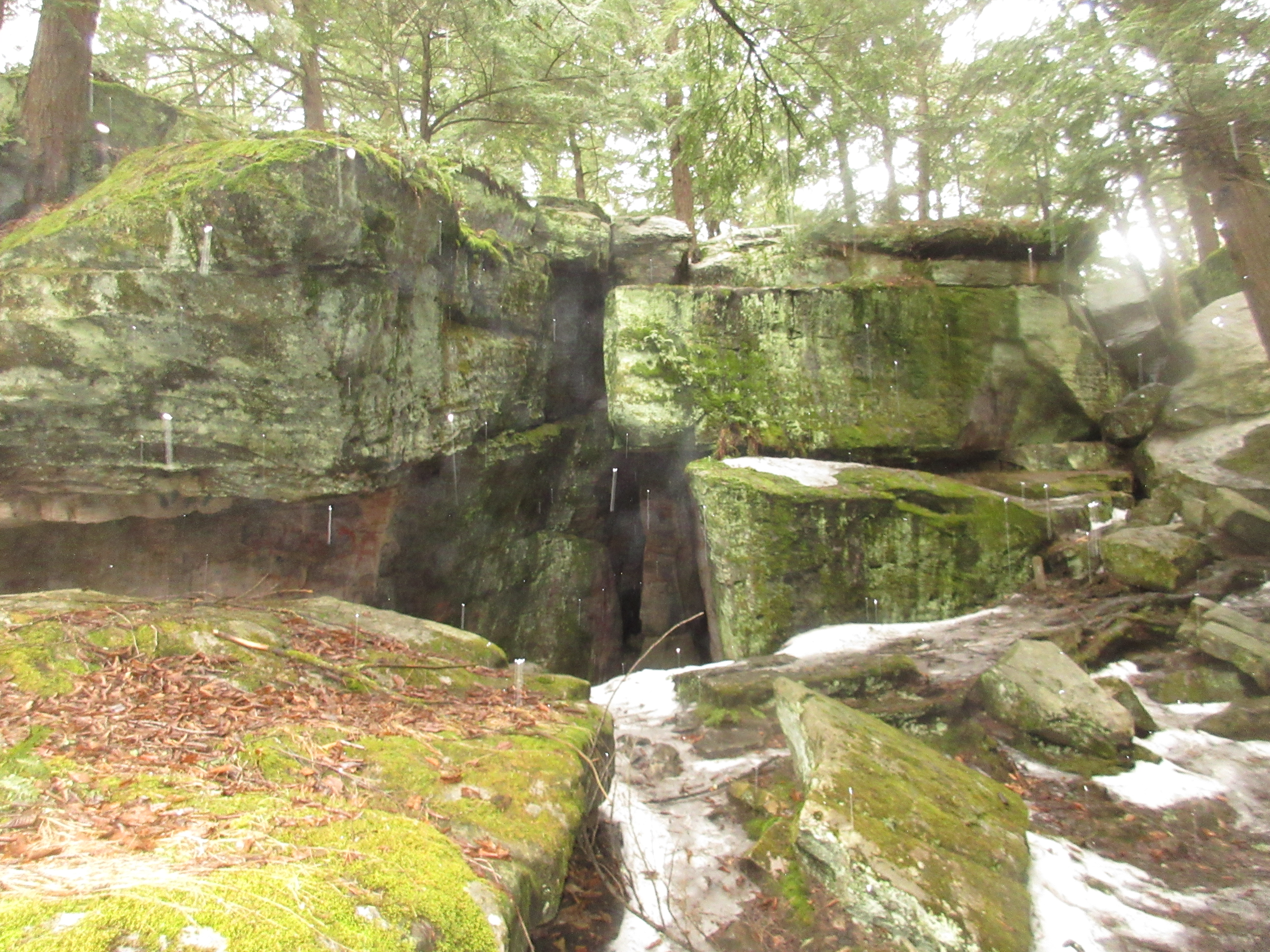 Depicted place: Bilger's Rocks